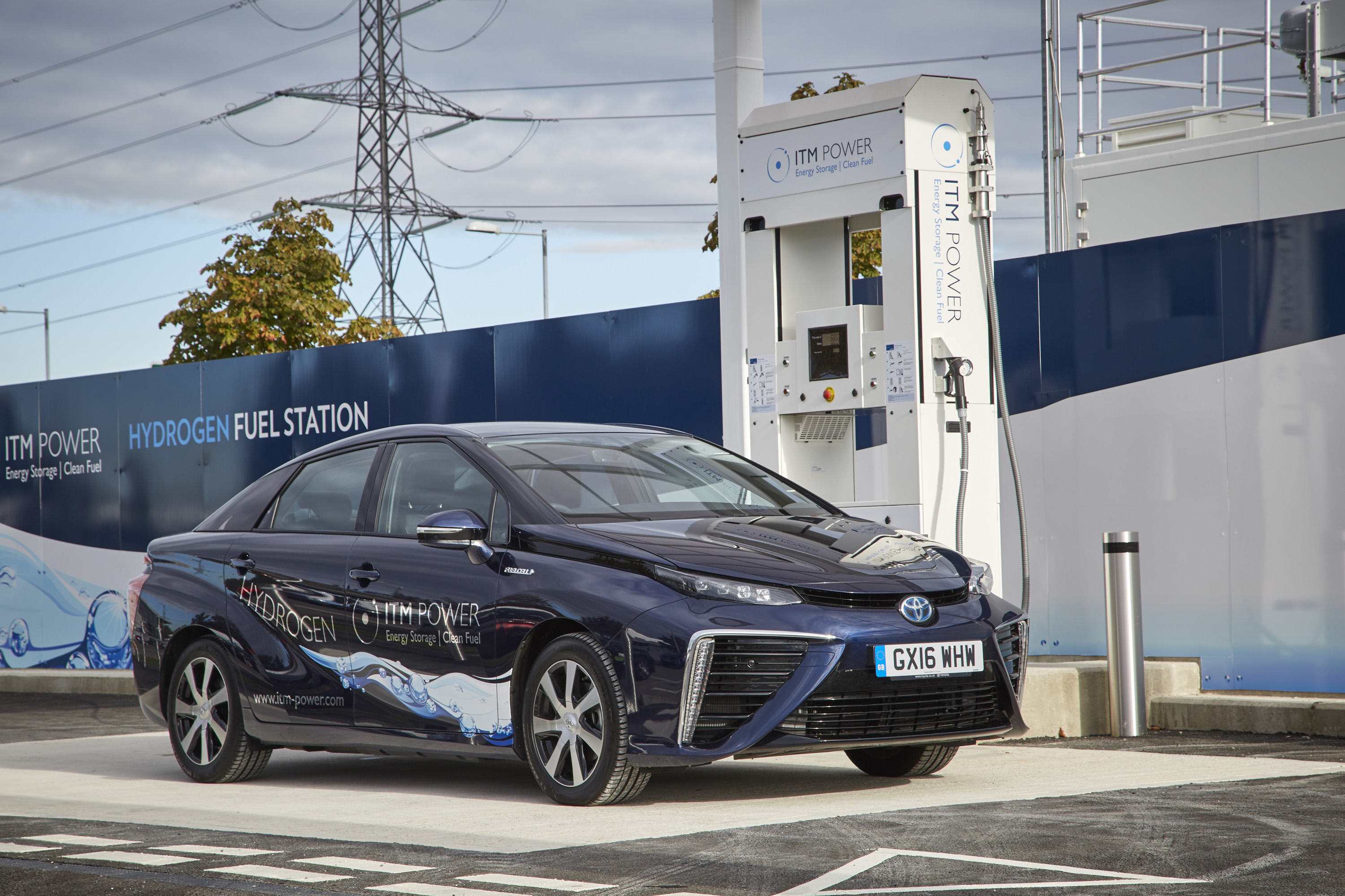 ITM Power Hydrogen Station and Toyota Mirai